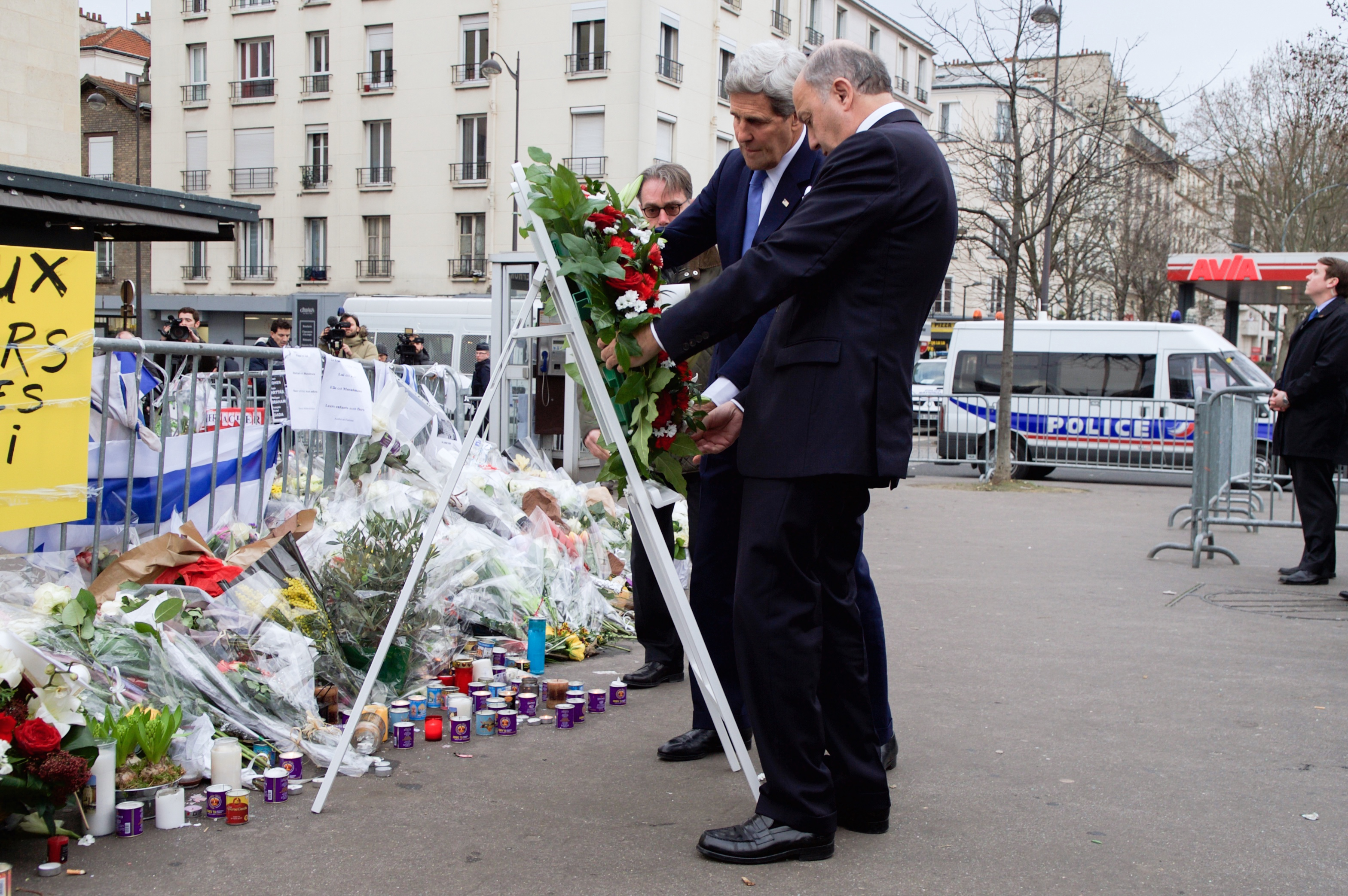 U.S. Secretary of State John Kerry and French Foreign Minister Laurent Fabius straighten the ribbons on a wreath they laid at Hyper Cacher kosher grocery store in Paris, France, as they travel across the city on January 16, 2015, to pay homage to the victims of last week's shootings. [State Department photo/ Public Domain]